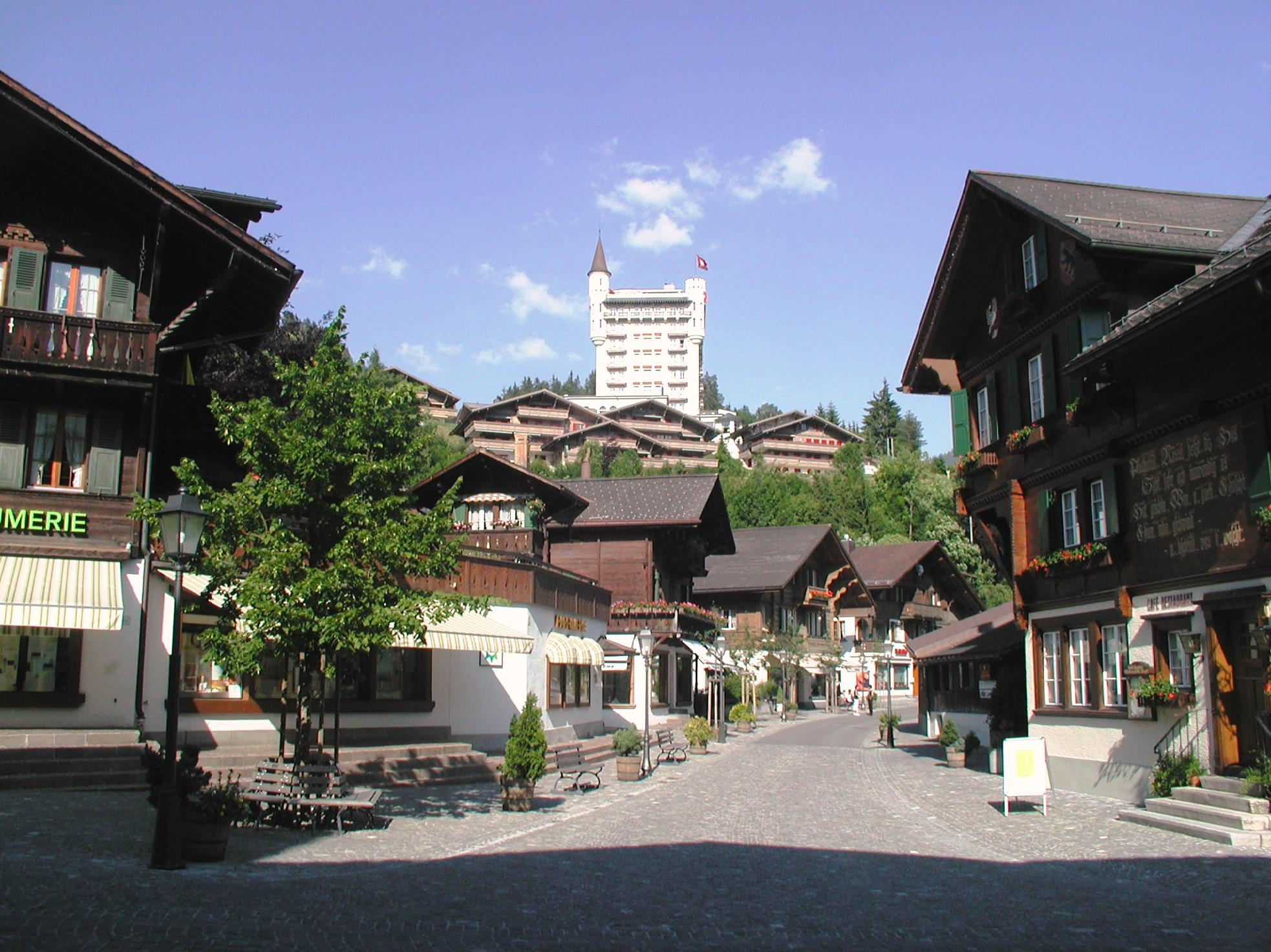 Gstaad main street, Bernese Oberland